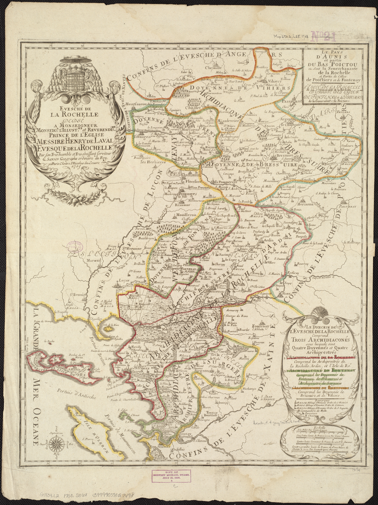 Zoom into this map at . Author: Sanson, Guillaume Publisher: Date: 1703 Location: La Rochelle (France) Dimension: 51x42cm Scale: ca. 1:279,00 Call Number: G5834.L2 1703 .S36x